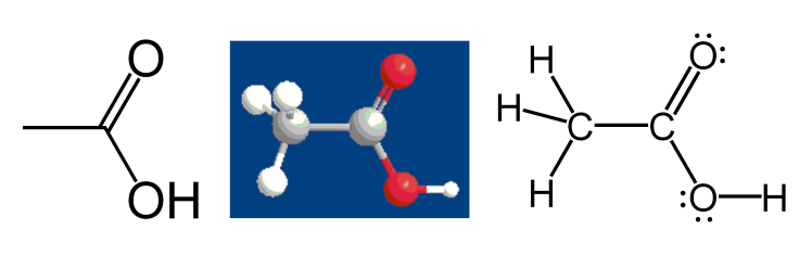 Three representations of the structure of acetic acid: line-angle, ball-stick 3D and Lewis structure. Drawn in ChemDraw by User:Walkerma in October 2005.